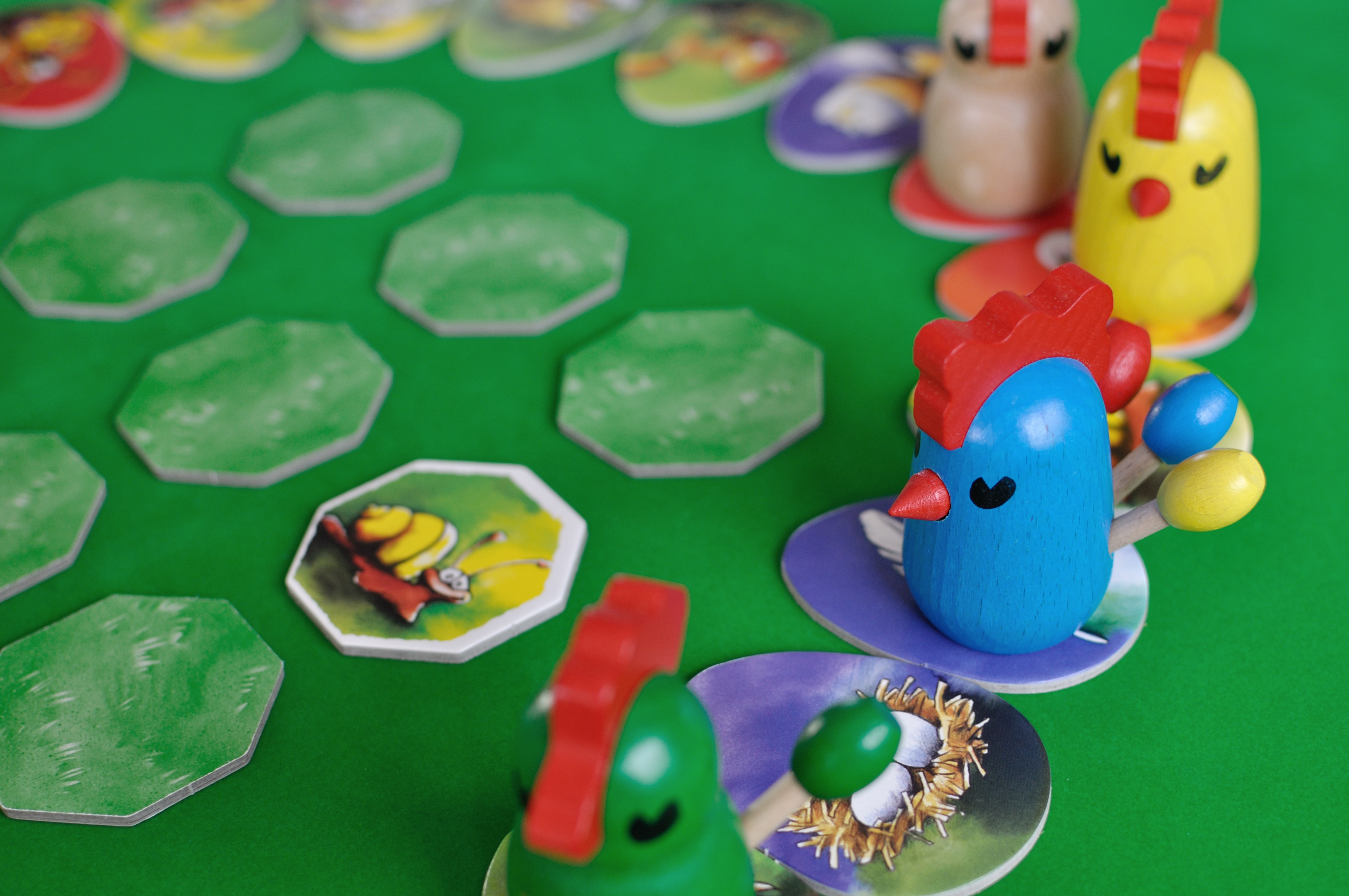 Chicken Cha Cha Cha